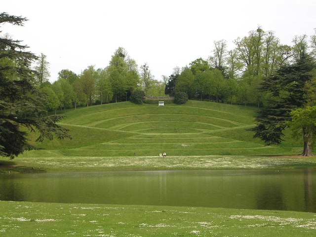 Claremont Landscaped Garden. The turf amphitheatre is the centrepiece of this, one of the first and finest gardens of the English landscape style. The gardens were begun by Sir Jon Vanbrugh and Charles Bridgeman before 1720, before being extended by William Kent. Capability Brown also made improvements. Today the gardens are a National Trust property.